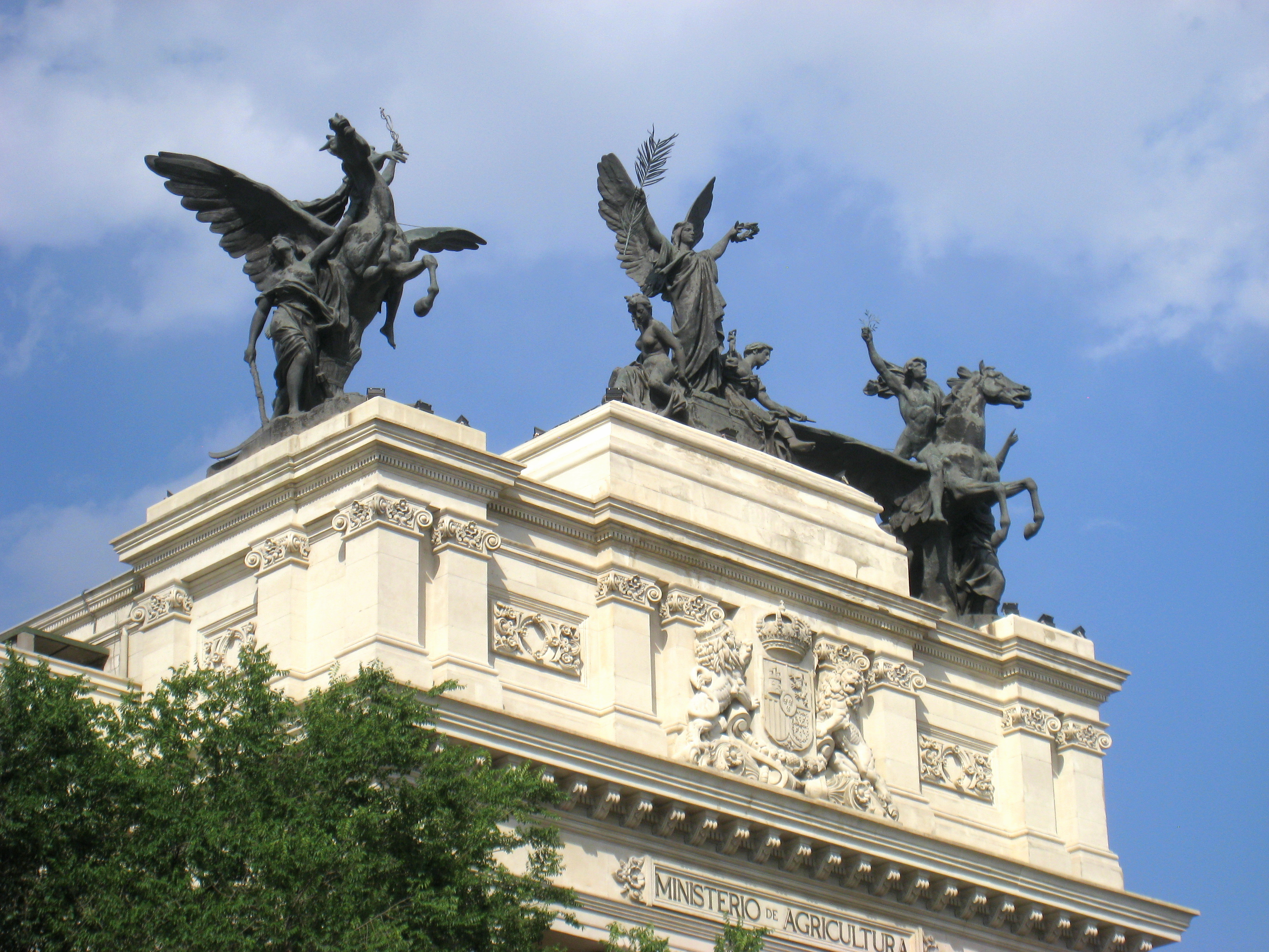 Ministry of Agriculture, Fisheries and Food of Spain headquarters, Madrid, Spain. At the top, the allegoric sculptural group La Gloria y los Pegasos ("The Glory and the Pegasus") by Agustí Querol Subirats (1860–1909).